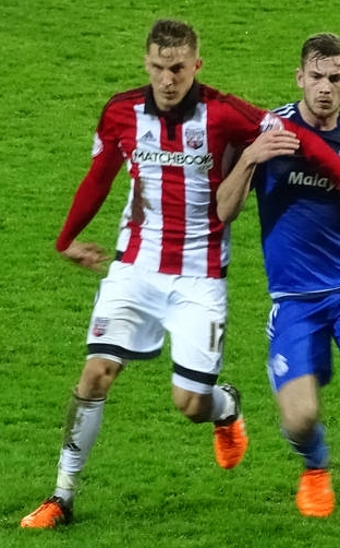 Konstantin Kerschbaumer, Brentford footballer, during a match against Cardiff City.